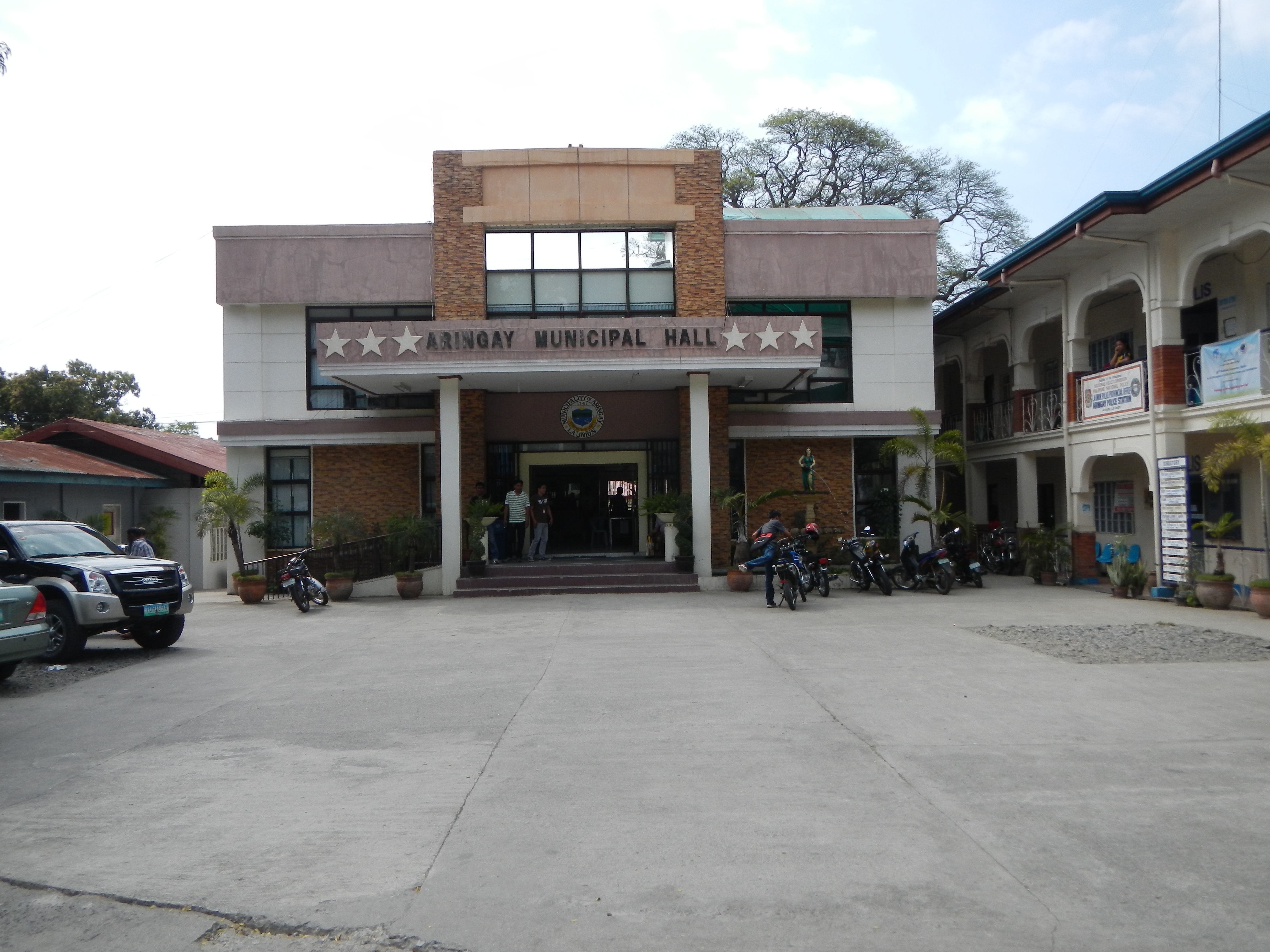 Photos of Town Proper of Aringay, La Union: including the Saint Lucy Parish Church (Aringay, La Union) Roman Catholic Diocese of San Fernando de La UnionPoblacion [1] (Vicariate of St. Francis Xavier Vicar Forane: Father Raul S. Panay Aringay F-1741 2503 La Union, Philippines Titular: St. Lucy, Dec. 13 Parish Administrator: Father Romeo G. Lopez) in Town Proper of Aringay, La Union La Union Notre Dame Institute beside the Notre Dame High School, Town Hall and Municipal Auditorium and Town Plaza.[2], prominent are the Giant ageless historic Acacia trees surrounding the Town Proper.